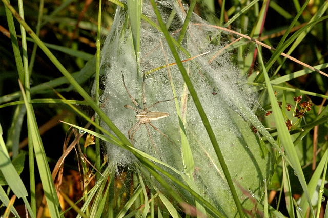 Pisaura mirabilis guarding nursery tent, from Commanster, Belgian High Ardennes .